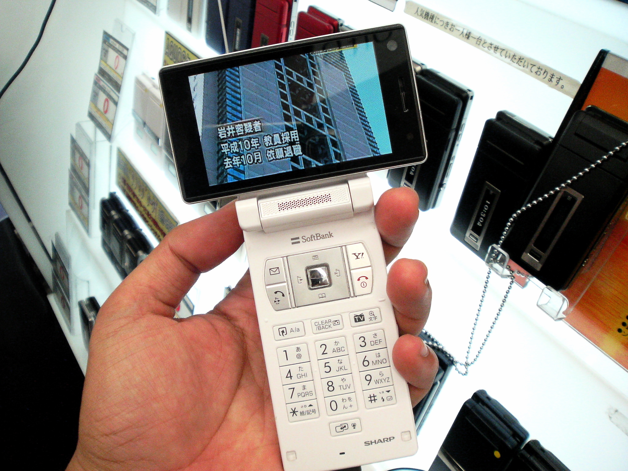 [Real] TV on Mobile